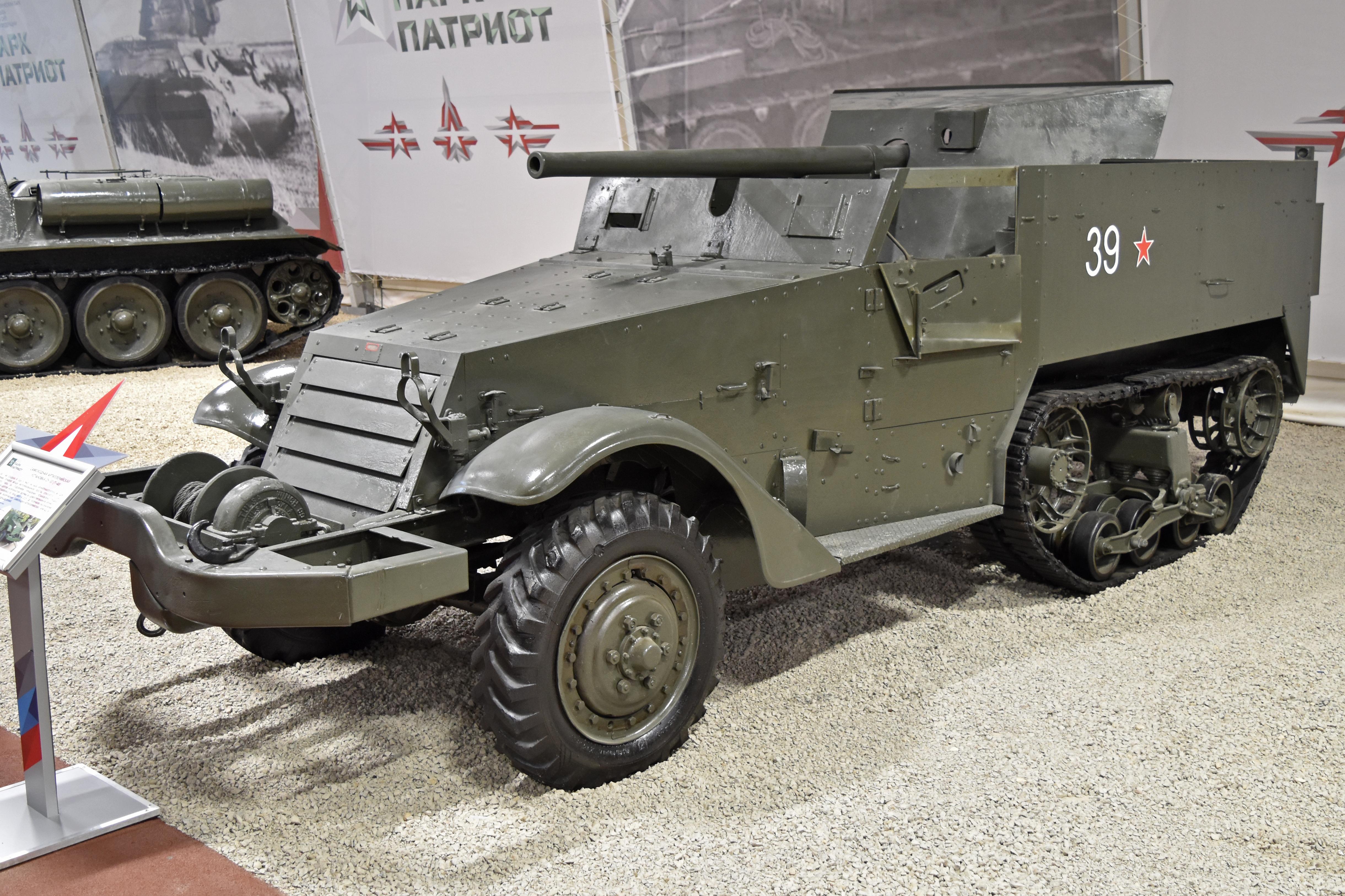 American WW2 era Self-propelled Anti-tank gun Designer:- F.F.Petrov Manufacturer:- Diamond T Built:- 1942 to 1943 Total Production:- 962 Main Armament:- 57mm gun M1 Designed and built in the USA as the T-48 Gun Motor Carriage, the SU-57 was effectively an M3 Half-Track mounting the 57mm M1 gun, which itself was a license built British QF 6 pounder. The entire production of the type was intended for British use in the Western Desert, however this campaign had ended by the time they were delivered and therefore 650 of them found themselves on the way to the Soviet Union as part of the Soviet Aid Program. The Soviets used them across the Eastern Front and particularly during Operation Bagration, the 1944 Soviet Belorussian Strategic Offensive Operation. This example is on display in Hall 10 of the Patriot Museum Complex. Park Patriot, Kubinka, Moscow Oblast, Russia. 25th August 2017